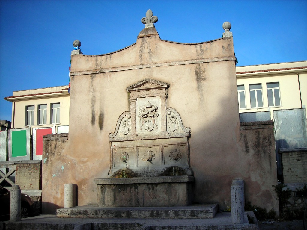 fountain near the castle of St. Eraclio, Foligno, Perugia, Umbria, Italy